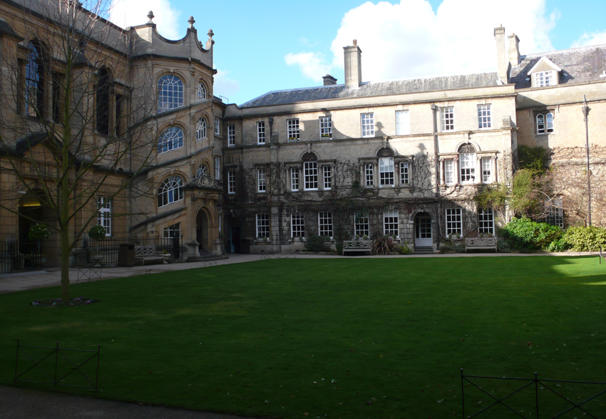 The main quad of Hertford College, Oxford.